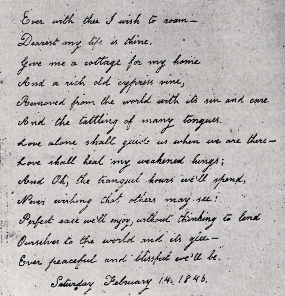 Handwritten Valentine poem by Virginia Eliza Clemm Poe, wife of Edgar Allan Poe.